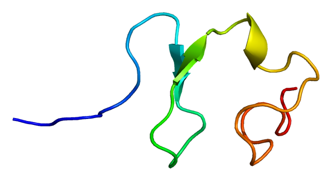 Structure of the RXFP1 protein. Based on PyMOL rendering of PDB 2jm4.